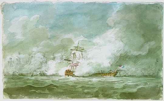 Ushant 1st June 1794 le Juste and Invincible; watercolour